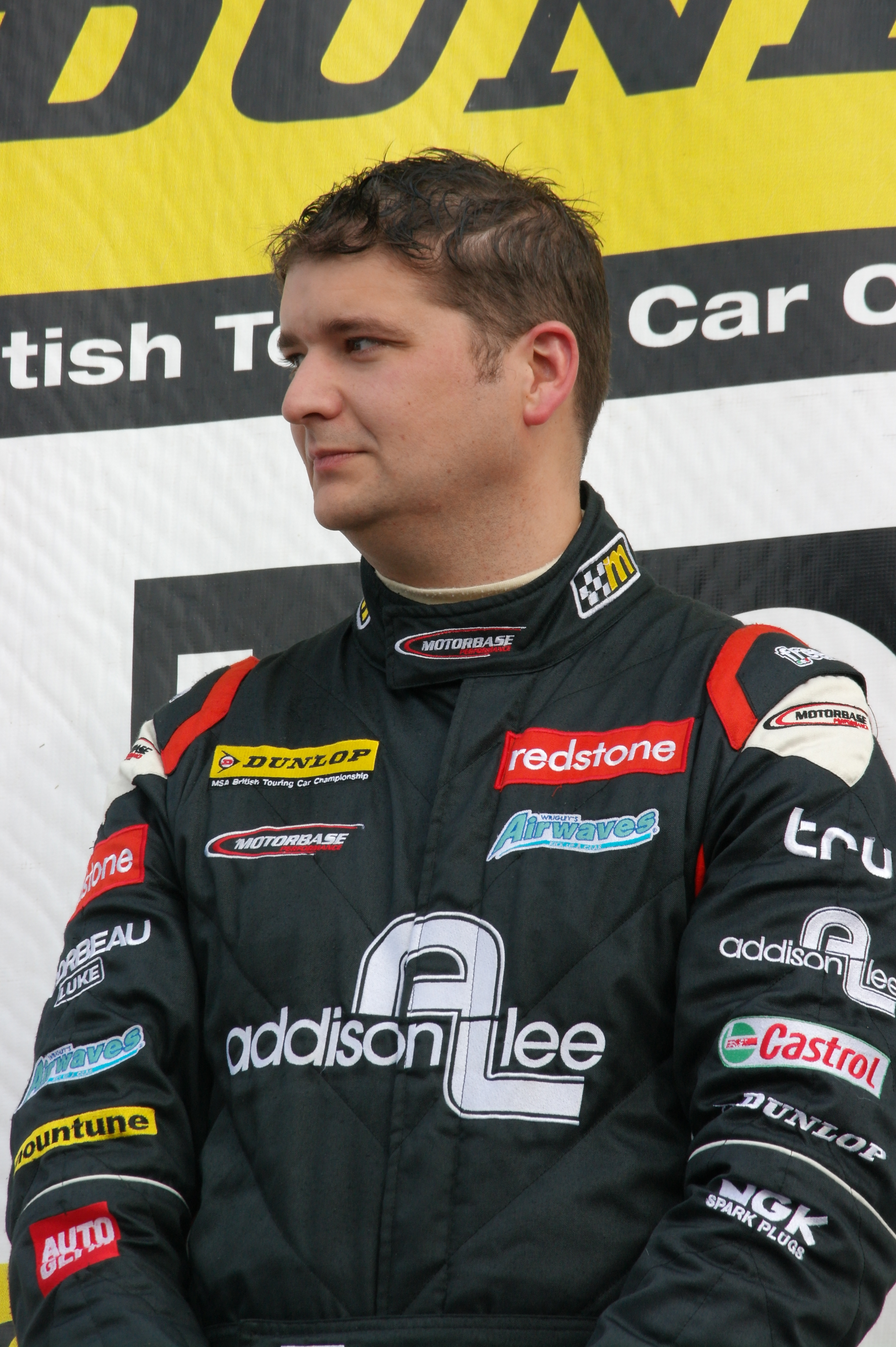 Mat Jackson as a driver for Redstone Racing at Silverstone during the 2012 British Touring Car Championship season.